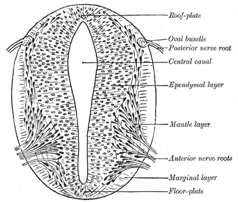 Section of medulla spinalis of a four weeks’ old human embryo.